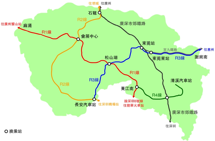 Route map of Dongguang Subway (all lines) under planning in traditional Chinese. Only interchange stations are marked.